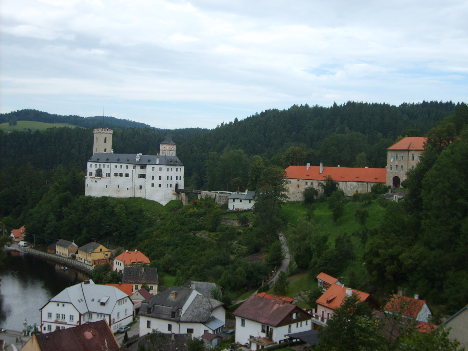 Castles of Rožmberk